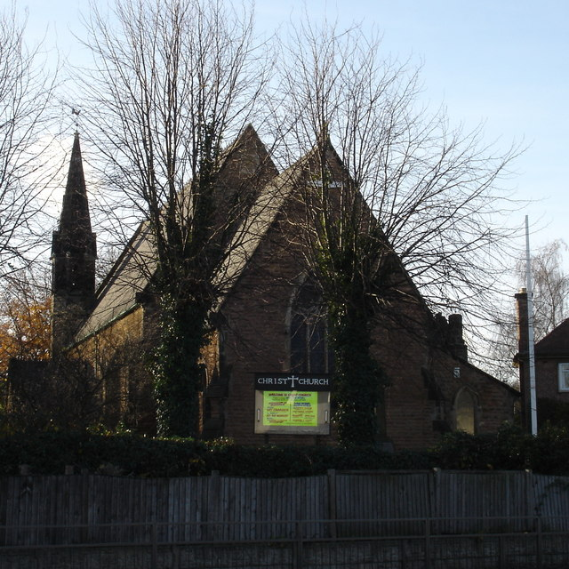 Christ Church, Cinderhill The situation of this church is a little unusual: the site is very restricted (there is no church yard or cemetery attached), and the main features of the church (spire, main door, etc) are tucked away at the end opposite the main road.